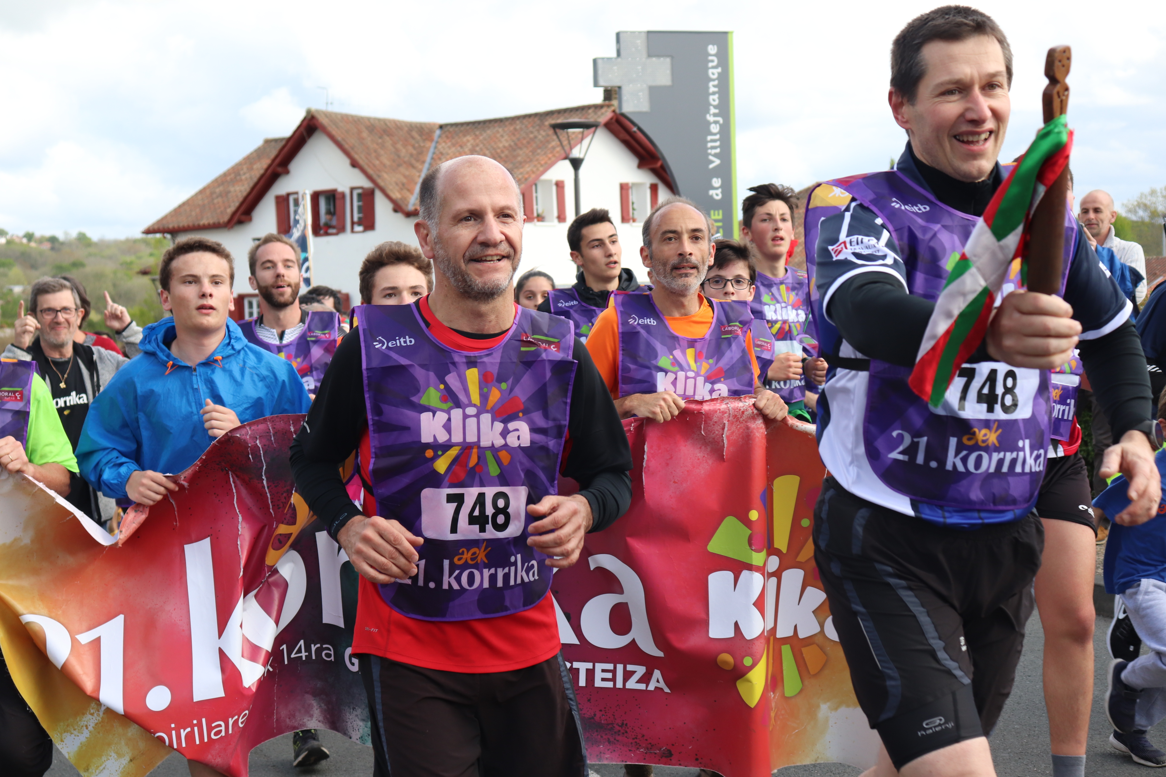 Wikimedians join Korrika 2019 event in support of the Basque languageEuskara: Wikimedia+Education_Conference_2019 konferentziako wikilariak Korrikan parte hartzen Lapurdiko Milafrangan